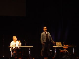 Harald Schmidt and Manual Andrack in Karlsruhe at Stadthalle